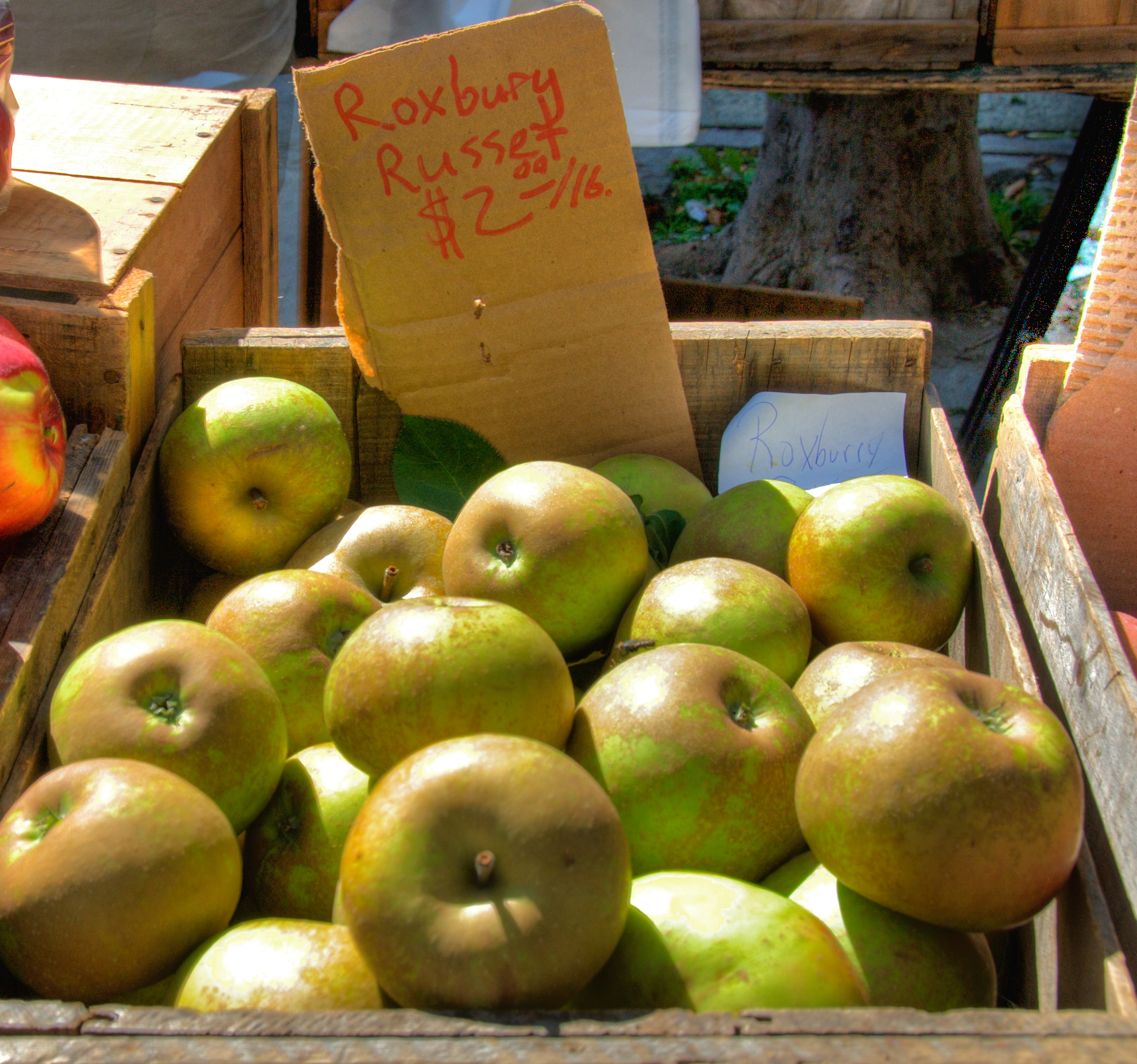 (more details later, as time permits) As I noted when I first visited my local farmer's market (which you can see here on Flickr , New Yorkers do not eat all of their meals at Starbucks or pizza joints. Nor do they buy all of their food at supermarkets or corner delis. We also buy our food at farmer's markets, where organically grown fruits, vegetables, cheese, and other items are brought from farms in nearby New Jersey and upstate New York. The first time I visited our local market, on 97th Street, between Amsterdam and Columbus, it was early in the morning -- a time I chose deliberately, because I thought the morning sunshine would some lighting effects. But most of the market stalls were hidden in the shadows of nearby tall apartment buildings, and there were hardly any people around. So, while the displays of food were interesting, there was no sense of humanity or community. This time, I went back at lunch-time, when the sun was high in the sky, and the shadows were gone. There were also many more people, including a small jazz quartet, with a very talented singer. So I got the requisite photos of food, but I also got some pictures of the band, the farmers and shop-keepers selling their wares, and a couple of the local people in the neighborhood...